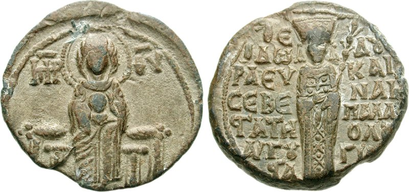 Theodora Doukaina Palaiologina. Wife of Michael VIII, 1253-1282. PB Seal (34mm, 35.92 g, 12h). Struck 1259-1282. MP ΘV across upper field; Theotokos seated facing on thokos covered with cushion, wearing chiton and maphorion, holding child Christ / ΘE/OΔW/ΡA EV/CEBE/CTATH/ AVΓΟV/CTA in left field; ΔOV/KAI/NA H/ ΠAΛA[I]/OΛO/ΓI[NA] in right (CTs ligate); Theodora standing facing, wearing crown with pendillia, divitision, and loros, right hand placed before breast in supplication, holding double lotus scepter in left hand. BLS I 122a-b corr. (scepter type); DOCBS -; Seyrig -; Vatican 16; Orghidan -; Jordanov -; Seibt & Zarnitz, 1.3.3. Good VF, nice gray-brown surfaces. From the Robert E. Hecht Collection.